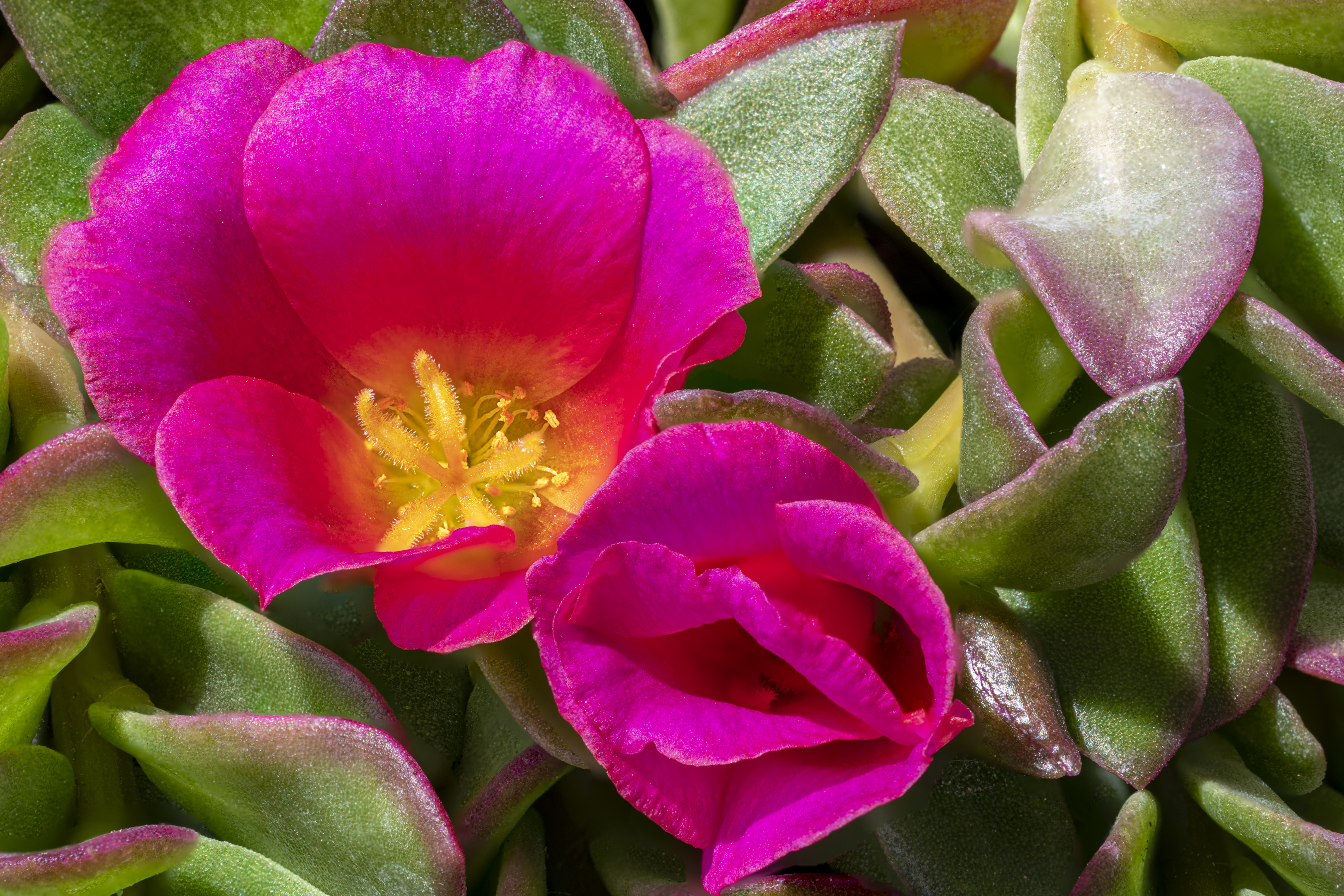 Famille : PortulacaceaeGenre : PortulacaEspèce : Portulaca grandiflora Hook.